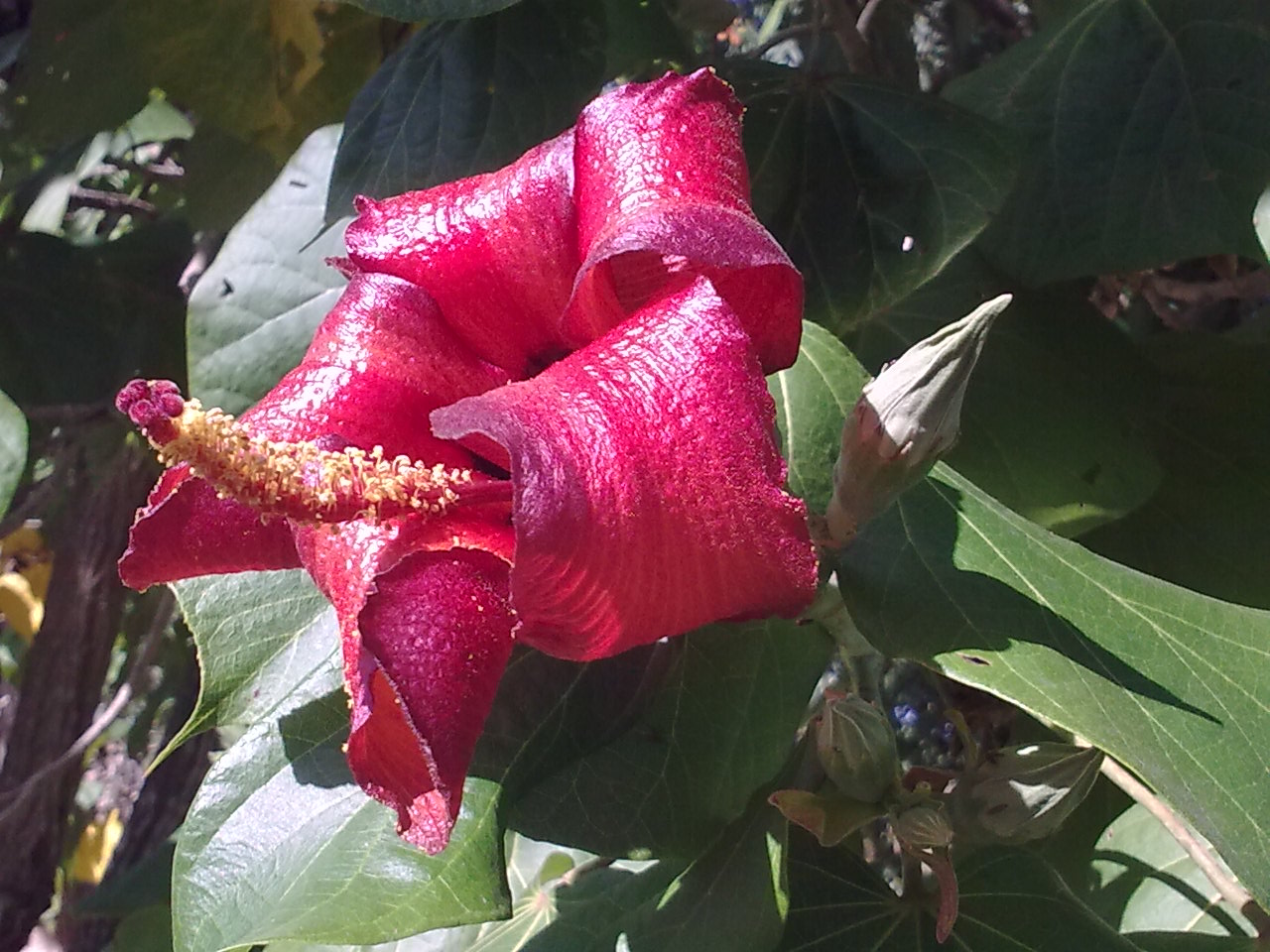 Majagua (mahoe) flower closeup, Santa Clara, Cuba